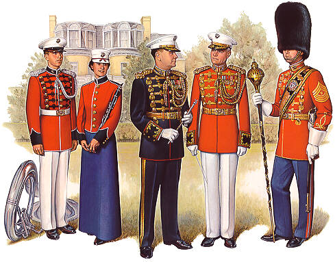 Marine Band Uniform : From left to right, Full Dress (white), Special Full Dress, Director's Full Dress, Assistant Director's Full Dress (White), Drum Major's Full Dress. Artist: Donna Neary, 1993.